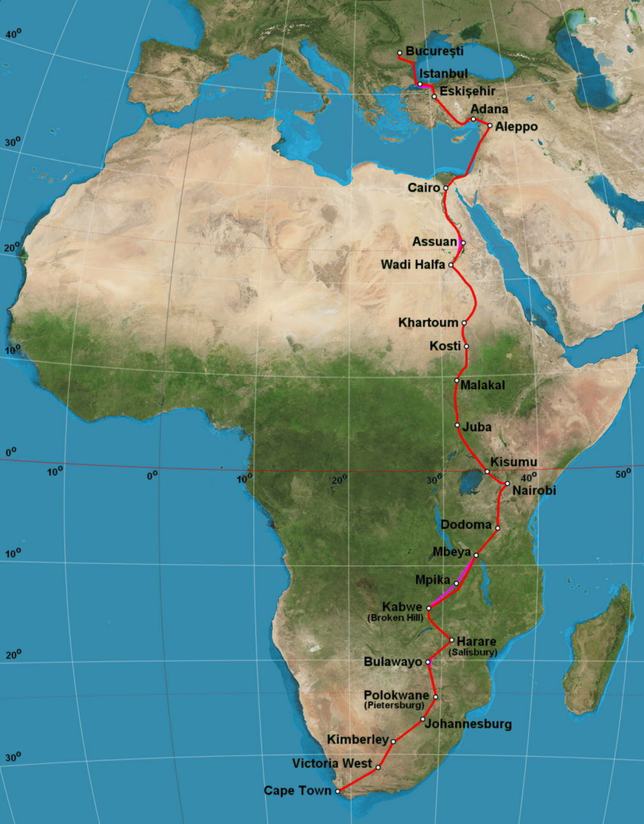 Route of Romanian aviation raid in Africa, Cape Town, 1935